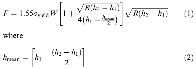 روابط یک و دو